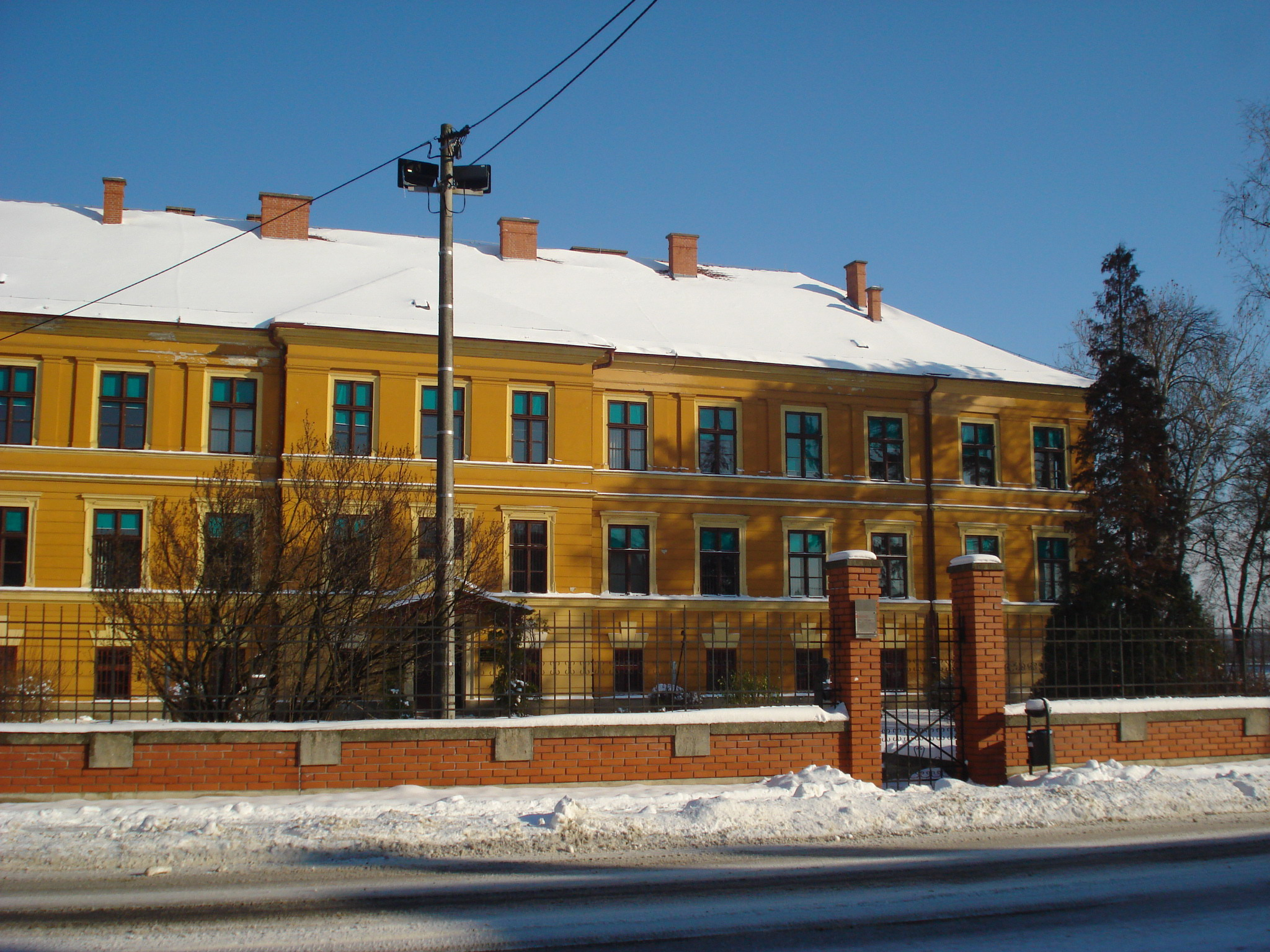 Čakovec Pedagogical Academy, a subdivision of the Faculty of Teacher Education of the University of Zagreb - main building (south part)